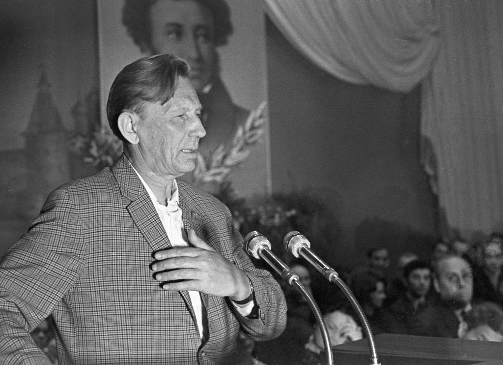 “Poet Mikhail Dudin”. The 3rd All-Union Celebration of Pushkin Poetry. Poet Mikhail Dudin. The Pushkin Academic Drama Theatre in Pskov.